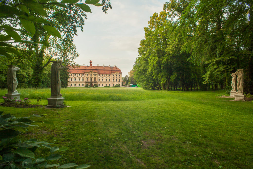 Zámecký park Měšice. V popředí sochy Atlantů.